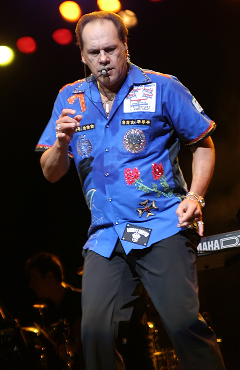 Harry Wayne Casey (KC) of KC & The Sunshine Band performing at the Del Mar CA Fairgrounds.